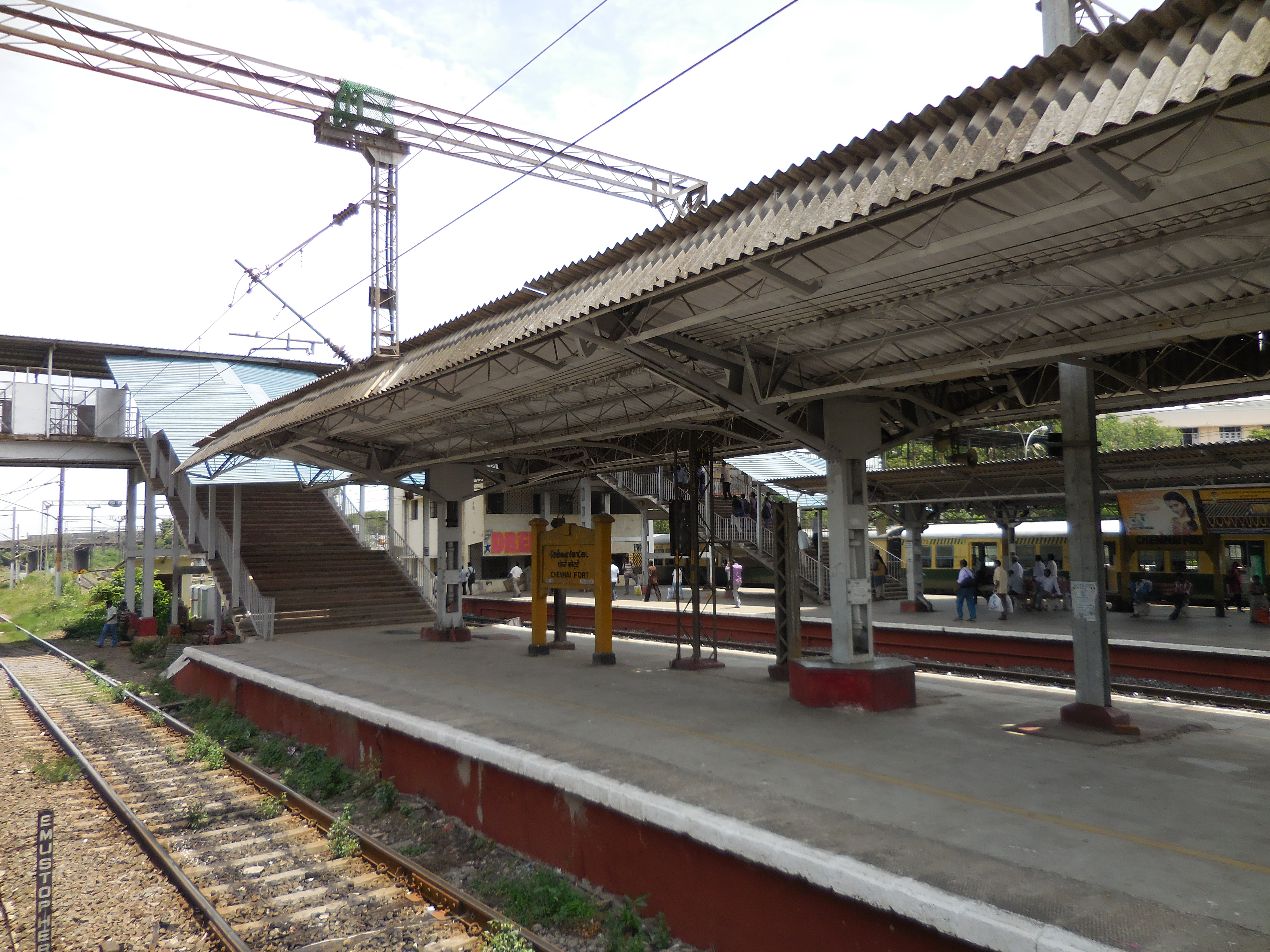 View of Chennai Fort railway station's MRTS platform, taken on 15 July 2014, afternoon.